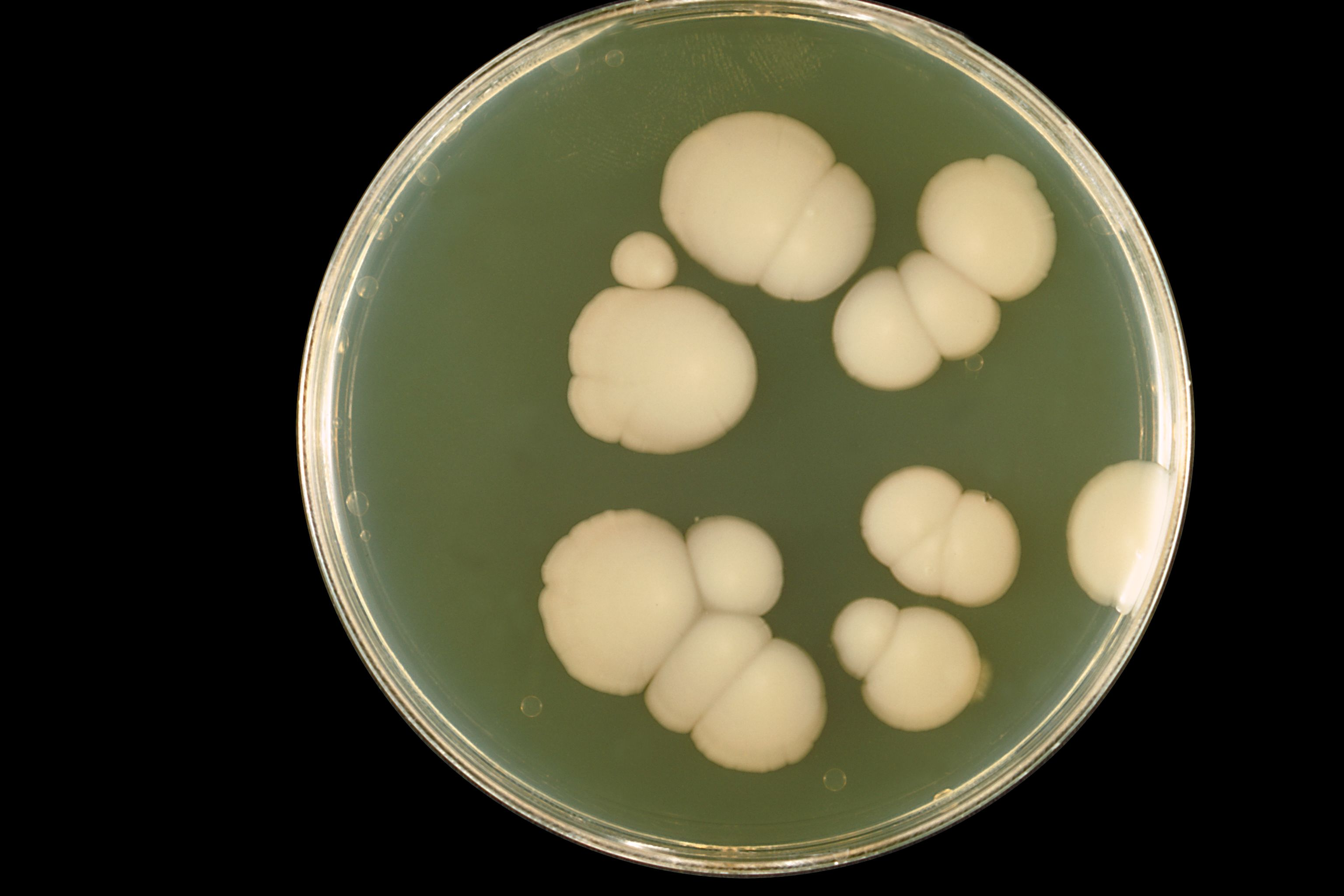 ID#: 3192 Description: This is an image of a SABHI agar plate culture of the fungus Candida albicans grown at 20°C. Candida albicans lives in or on numerous parts of the body as normal flora. However, when an imbalance occurs, such as when hormonal balances change, C. albicans can multiply, resulting in a mucosal or skin infection called Candidiasis. Content Providers(s): CDC/Dr. William Kaplan Creation Date: 1969 Copyright Restrictions: None - This image is in the public domain and thus free of any copyright restrictions. As a matter of courtesy we request that the content provider be credited and notified in any public or private usage of this image.